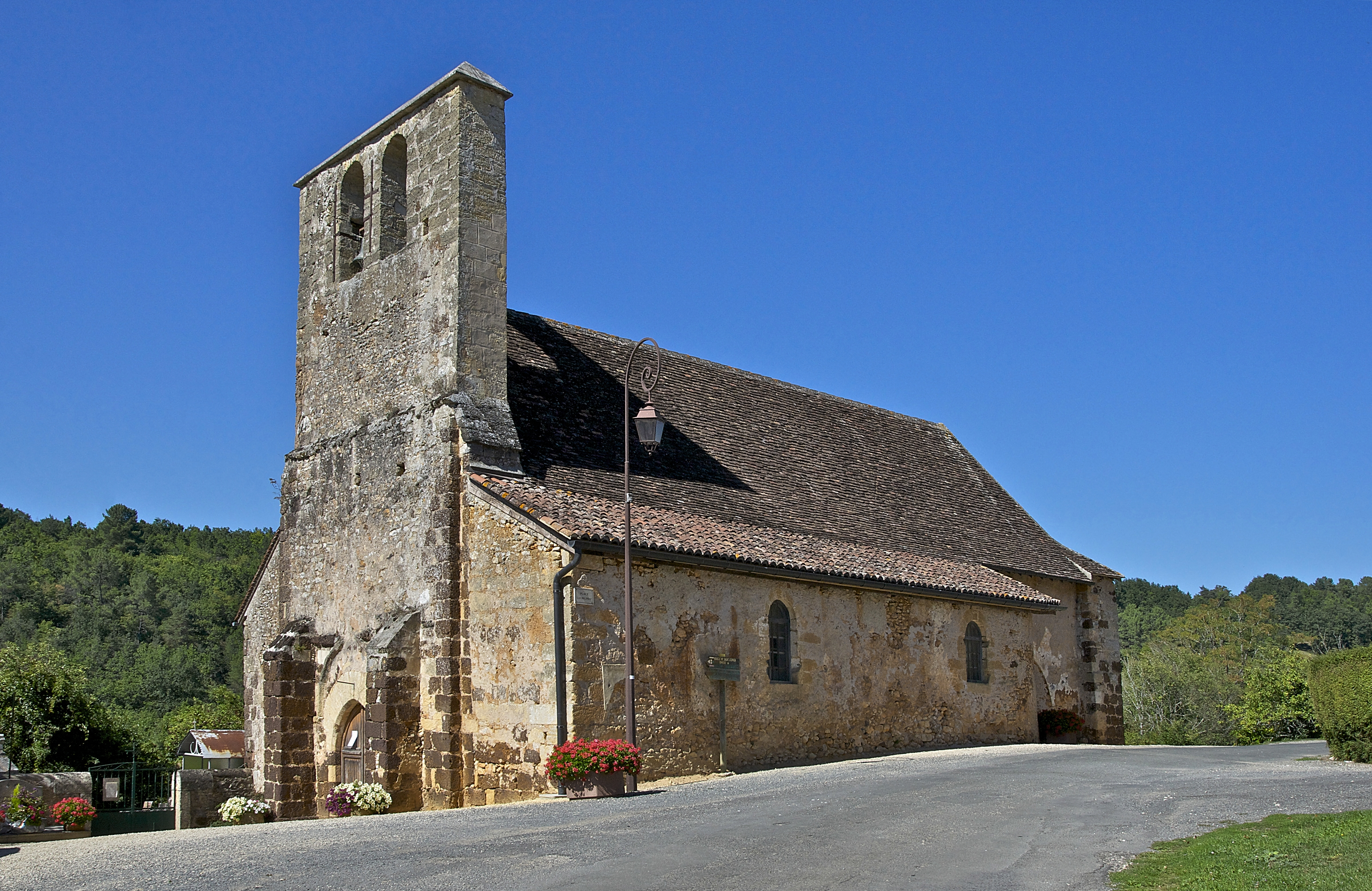 The church Saint-Saturnin in Rouffignac-Saint-Cernin-de-Reilhac in Dordogne, France.